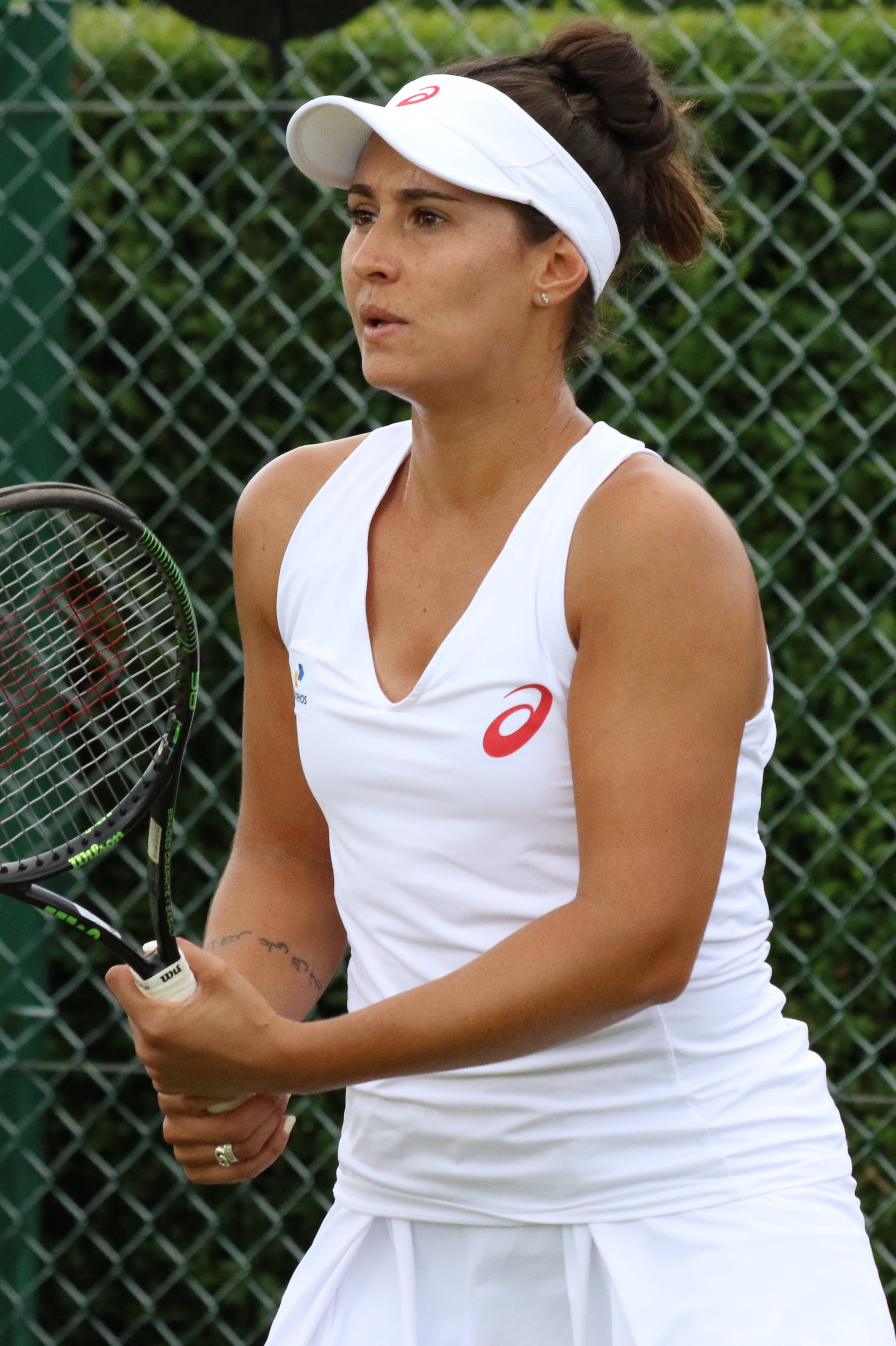 Goncalves WMQ16 (8)